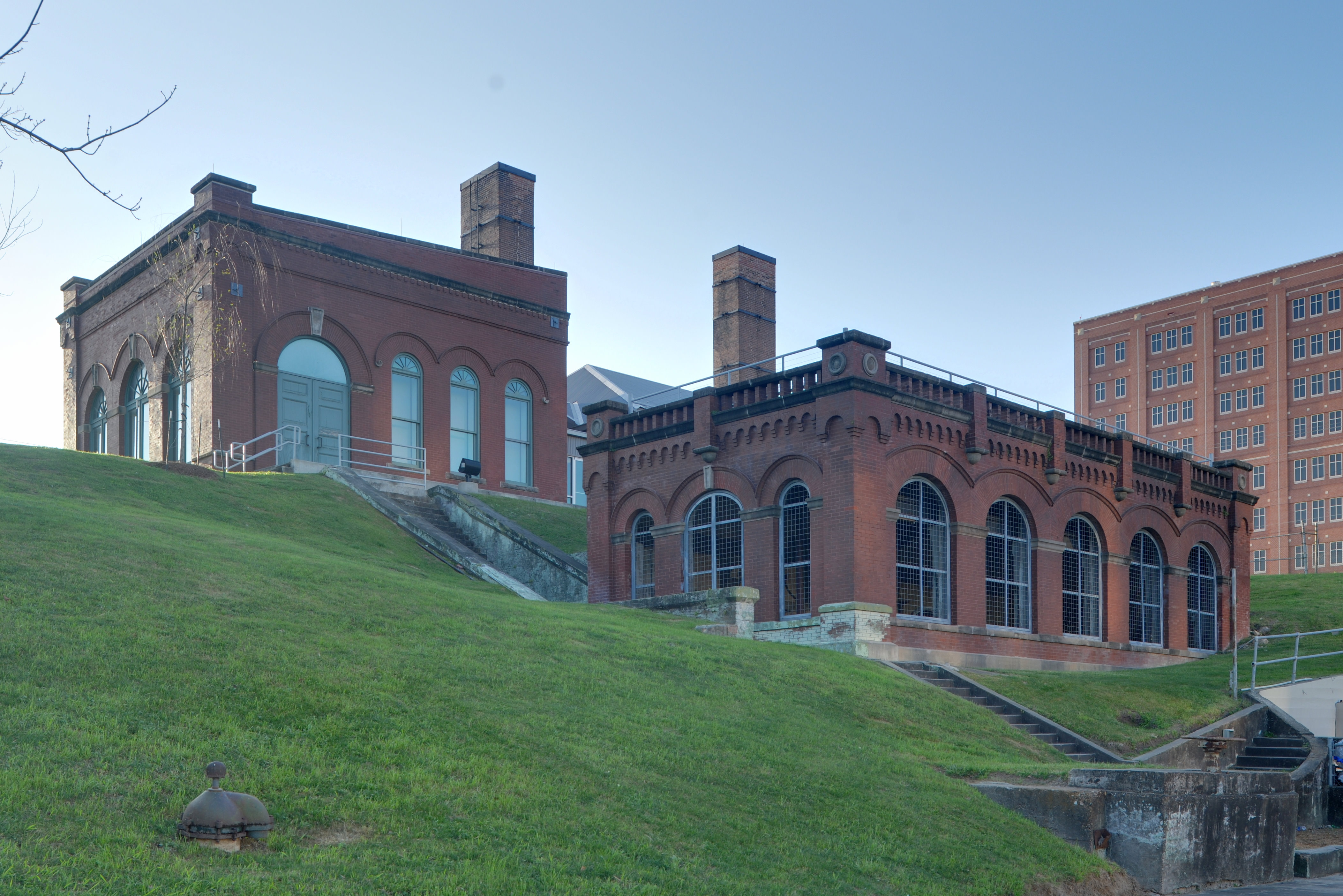 The Willow Street Pump Station at 811 N. San Jacinto St., Houston (Texas, USA) is listed in the National Register of Historic Places, United States Department of the Interior.